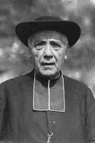 Jean-Baptiste Fouque (1851-1926), French catholic priest, foundator of hospitals and caritative centers